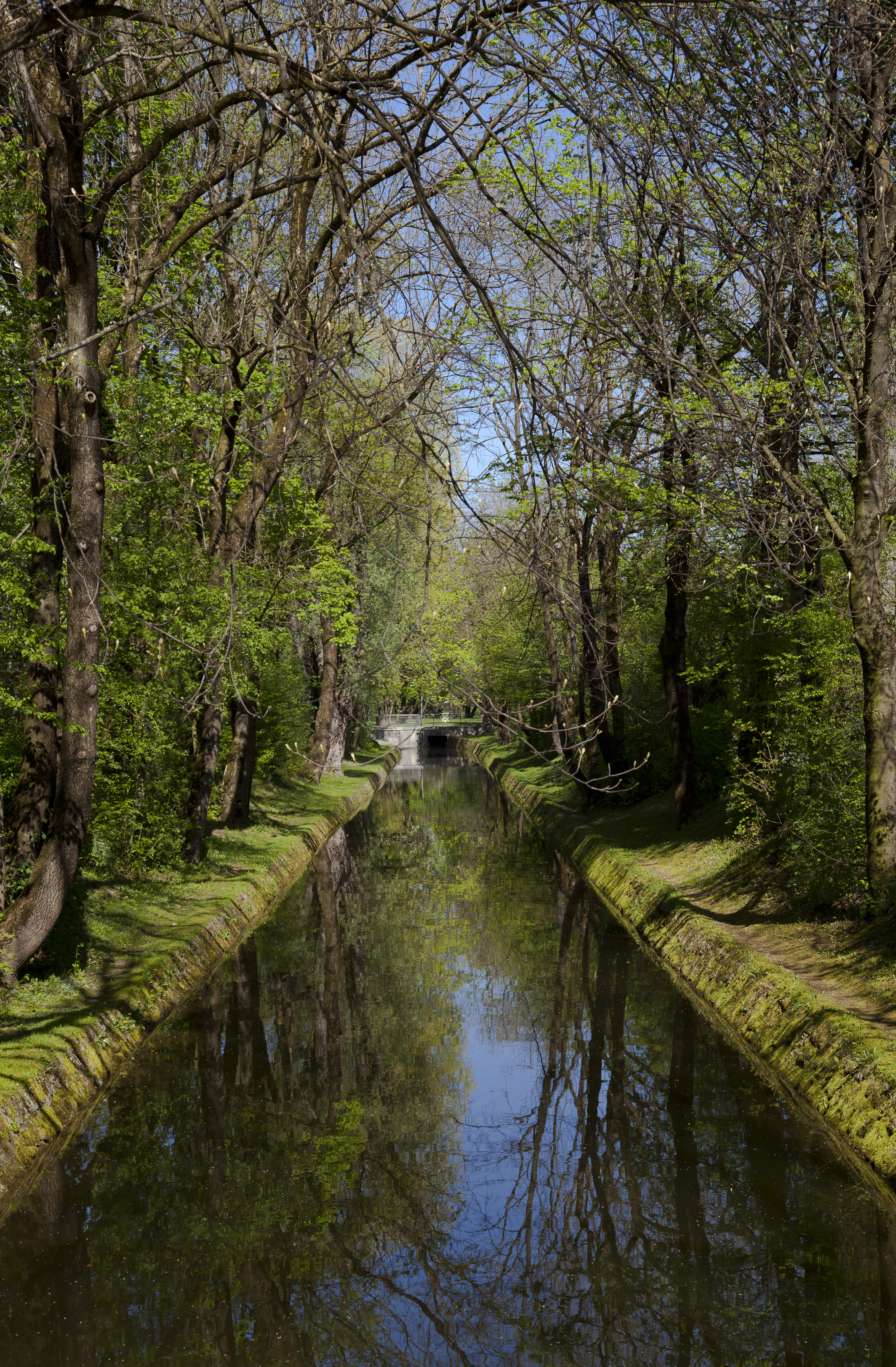 Olympiapark, Munich, Germany.